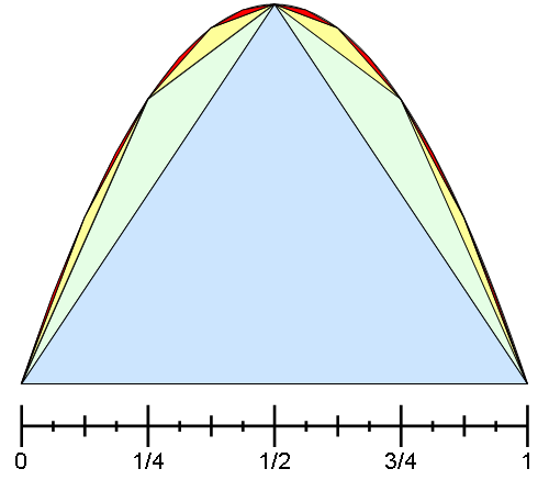 Archimedean decomposition of a parabolic segment into infinitely many triangles. Each green triangle is 1/8 of the area of the blue triangle, each yellow triangle is 1/8 the area of a green triangle, and so forth. Assuming the blue triangle has area 1, the total area under the parabola is 1 + 2 8 + 4 64 + ⋯ {\displaystyle 1\,+\,{\frac {2}{8 \,+\,{\frac {4}{64 \,+\,\cdots } = 1 + 1 4 + 1 16 + ⋯ {\displaystyle =1\,+\,{\frac {1}{4 \,+\,{\frac {1}{16 \,+\,\cdots } . The sum of this geometric series is 4/3.